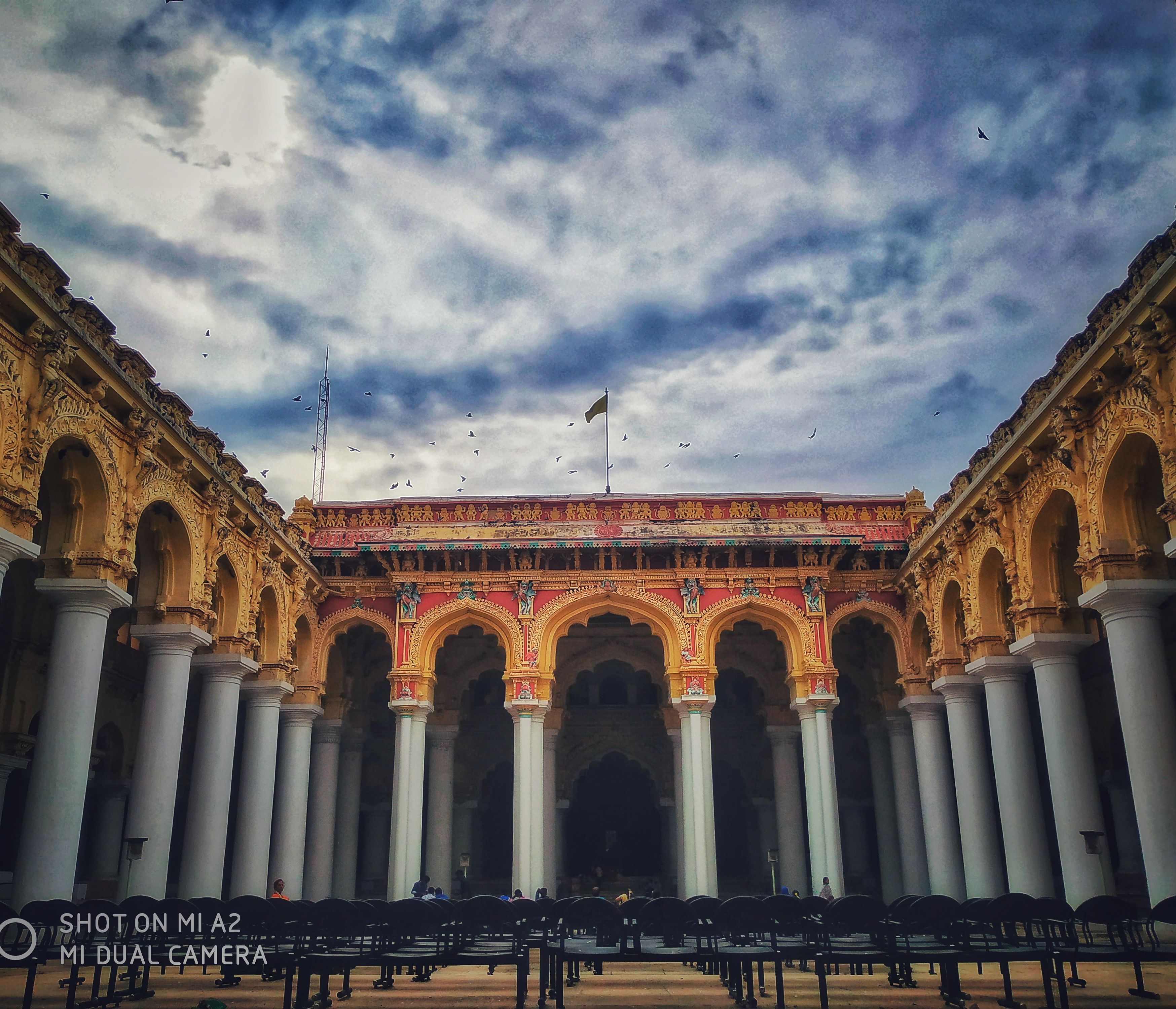 Thirumalai Nayakkar Mahal - Madurai